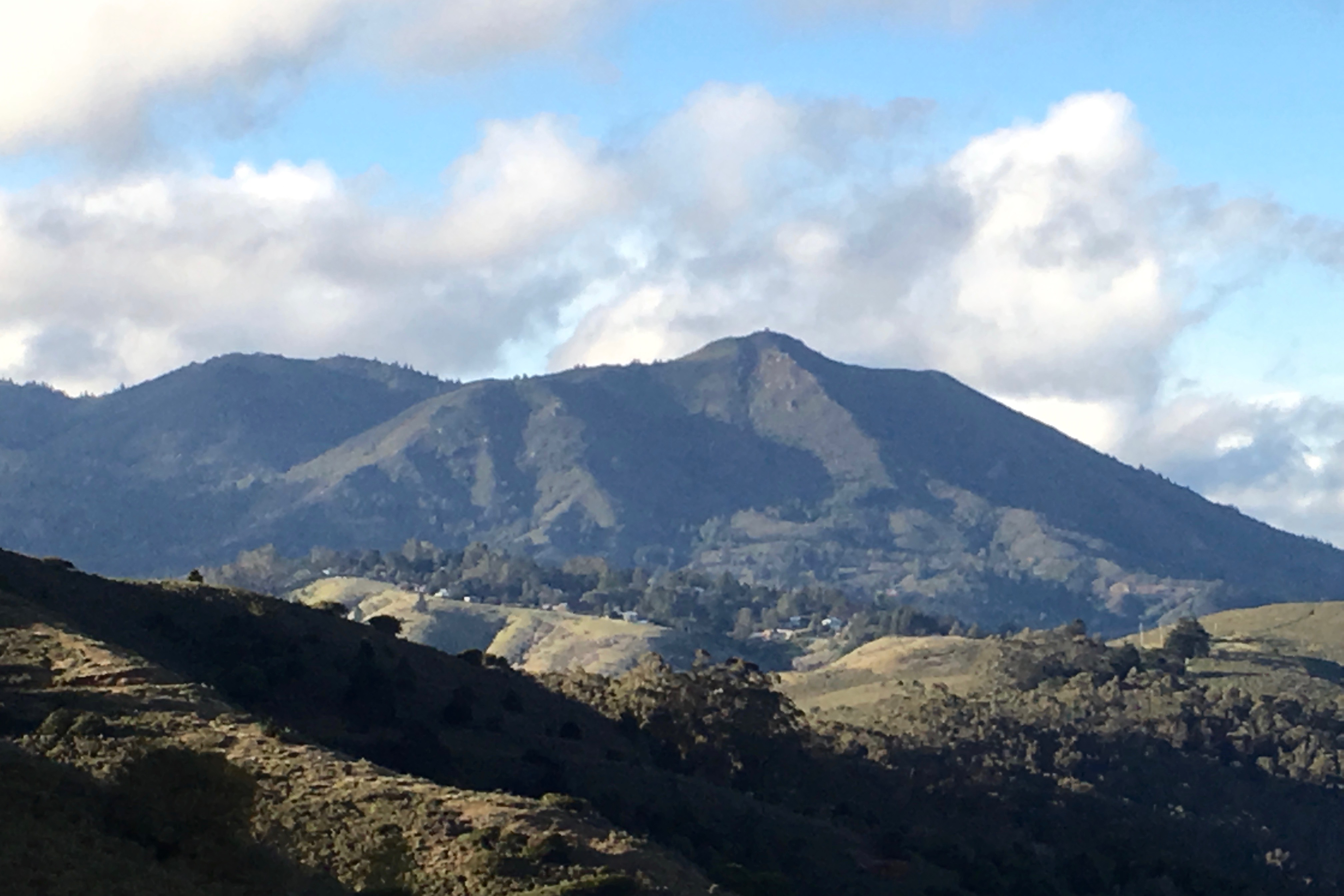 A view of Mount Tamalpais, as seen from the south.